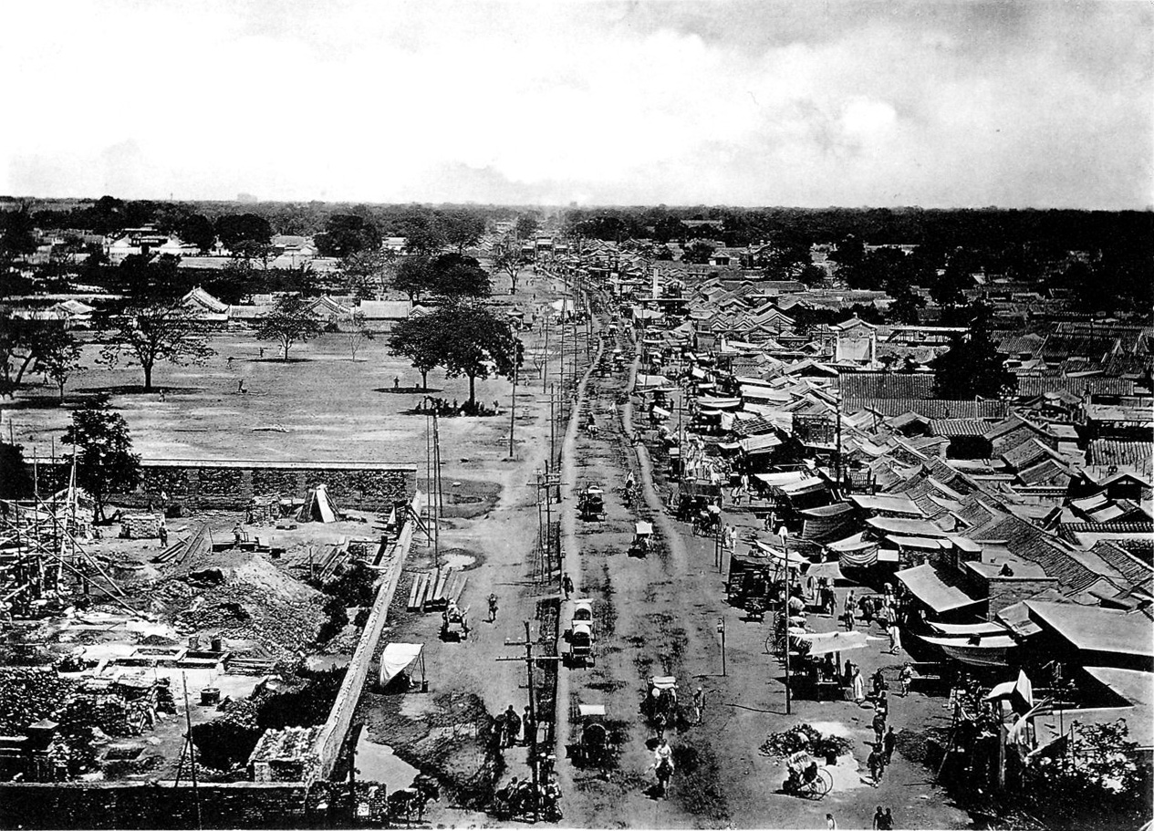 photo from Ein Tagebuch in Bildern